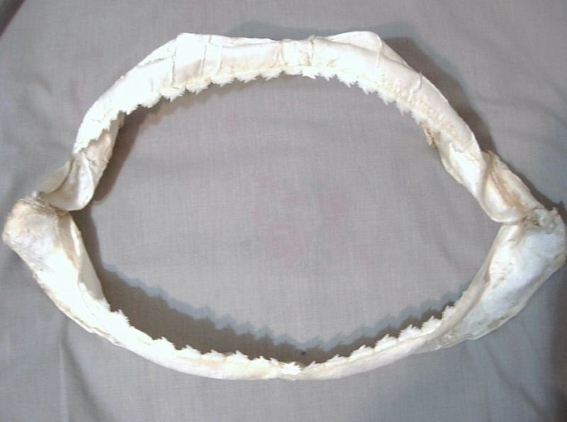 Rare image of the Echinorhinus cookei jaw.